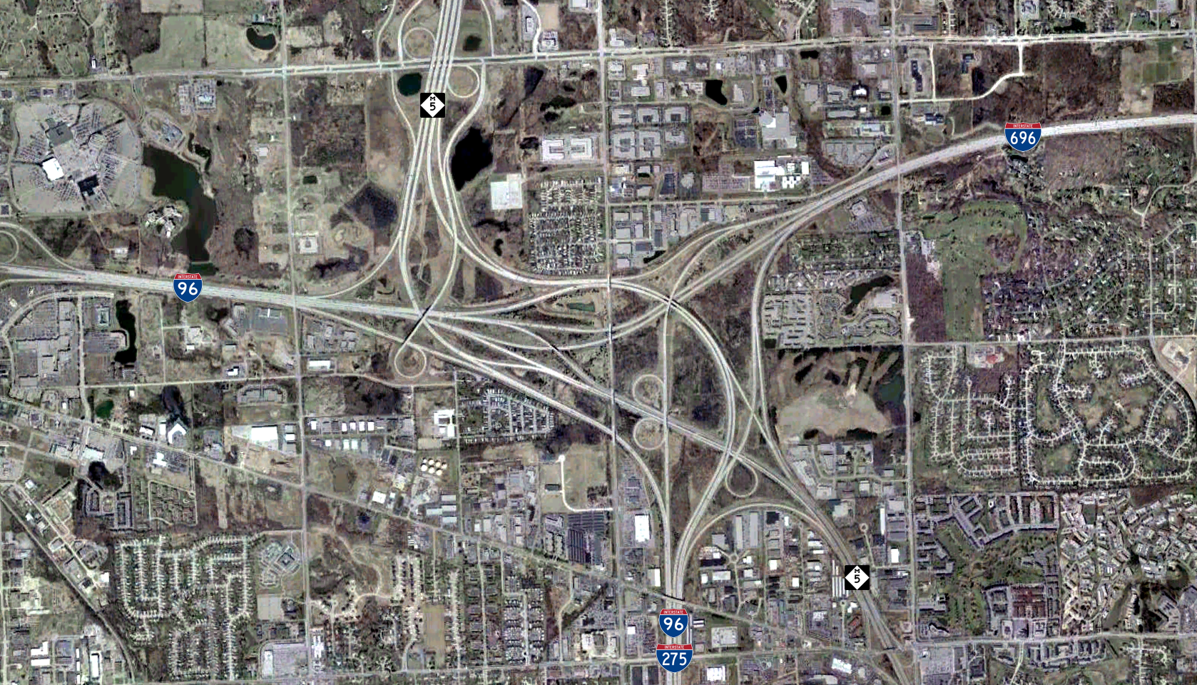 Satellite image of the interchange at the confluence of I-96, I-696, I-275 and M-5 near Novi, Michigan.